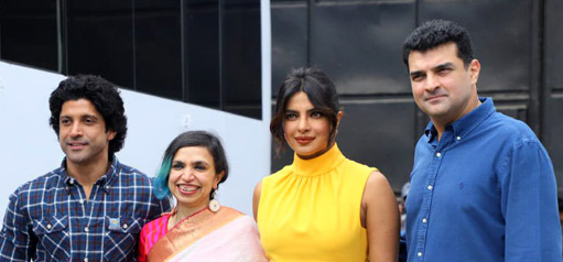 The team of The Sky Is Pink at a promotional event